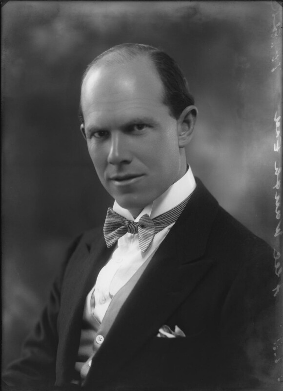 Alec Waugh by Bassano Ltd half-plate glass negative, 6 July 1931 Given by Bassano & Vandyk Studios, 1974 Photographs Collection NPG x26682